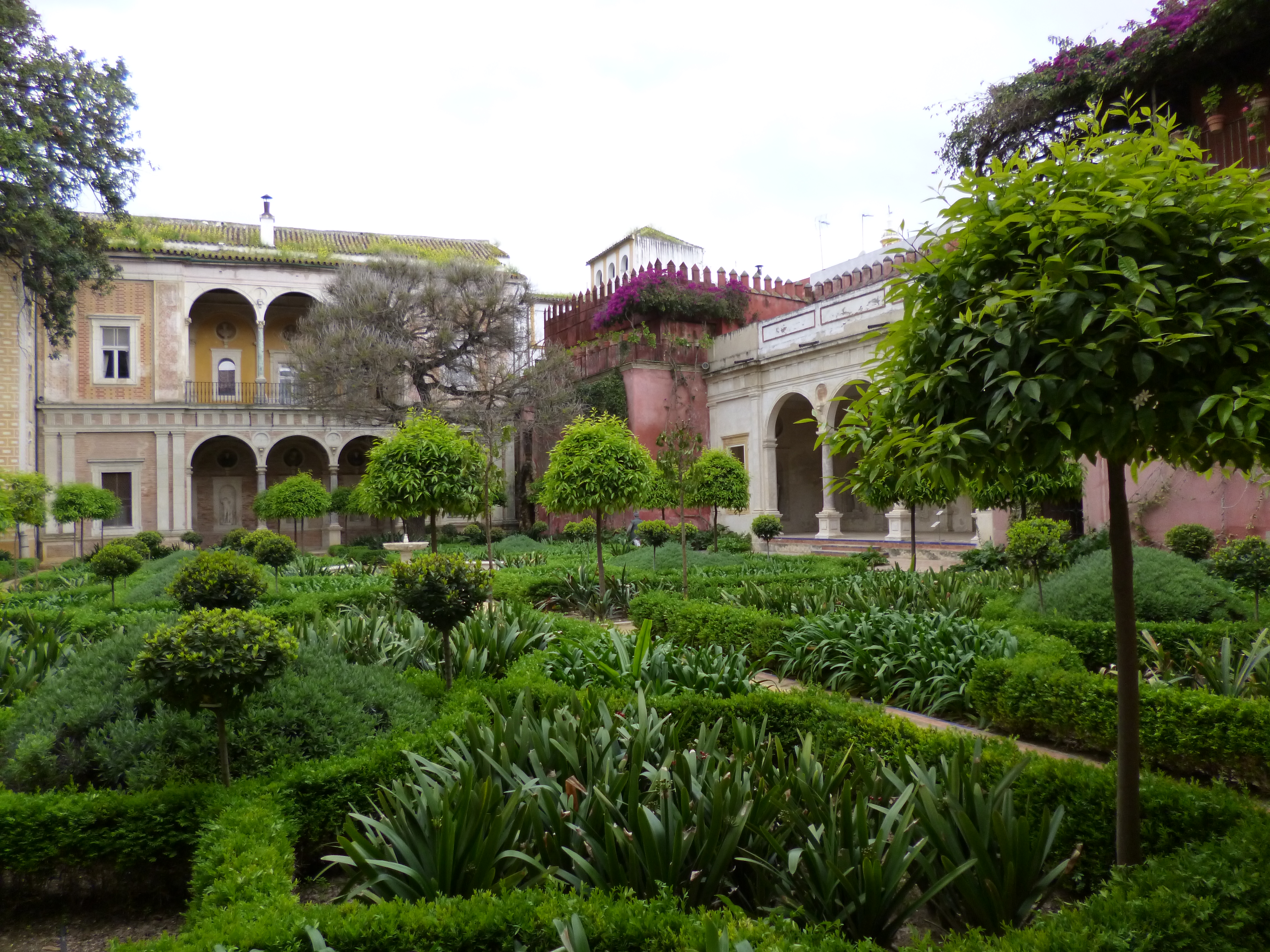 garden in the casa de pilatos, different angle